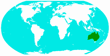 Locator map of the Australian continent (no islands)